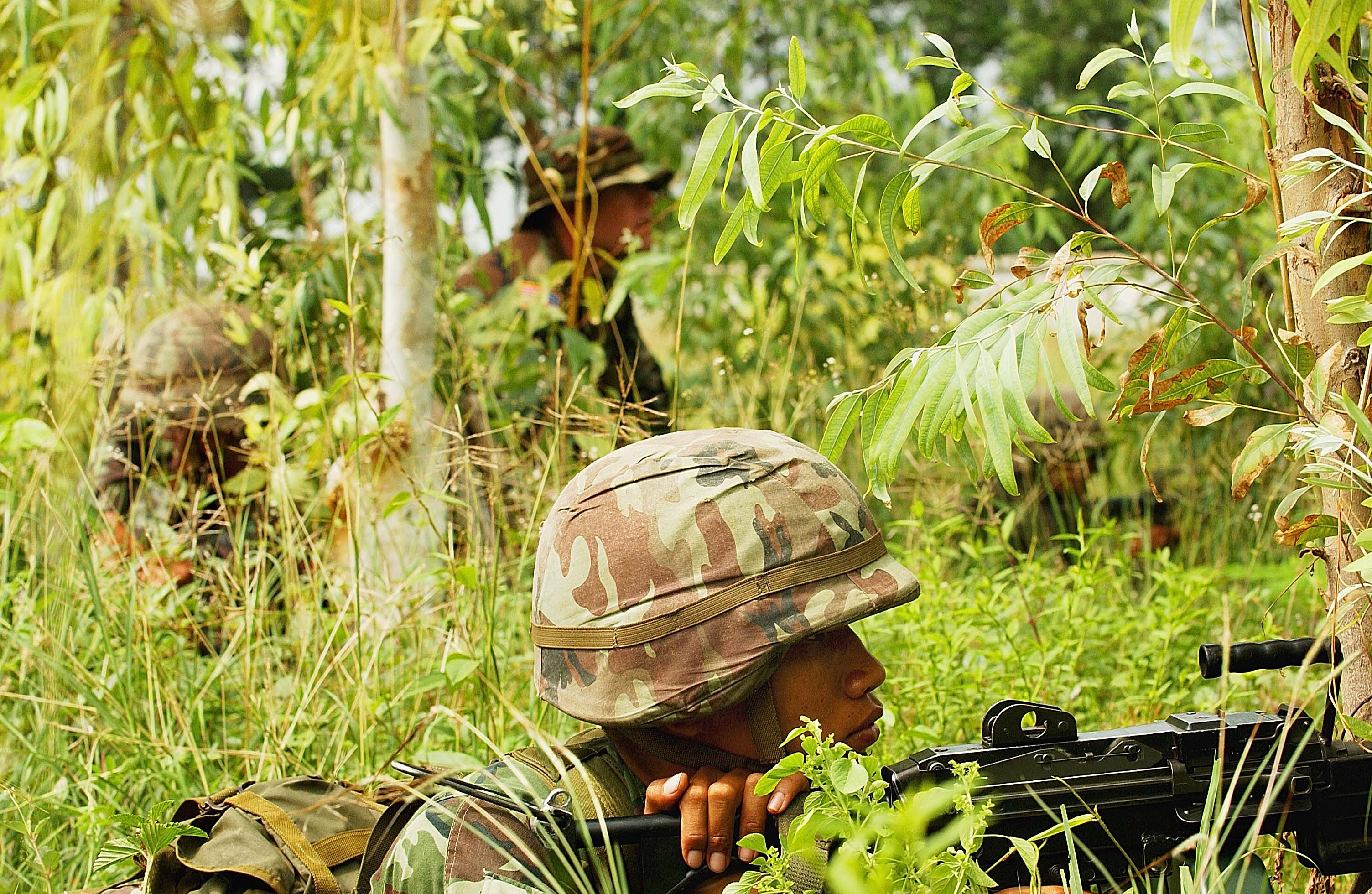 Thai and U.S. Army Soldiers practice tactical manoeuvres during exercise Cobra Gold 2006 in Lop Buri, Thailand, May 18, 2006. The exercise is a combined annual joint training exercise involving the United States, Thailand, Japan, Singapore, and Indonesia. DoD photo by Staff Sgt. Efren Lopez, U.S. Air Force. (Released)